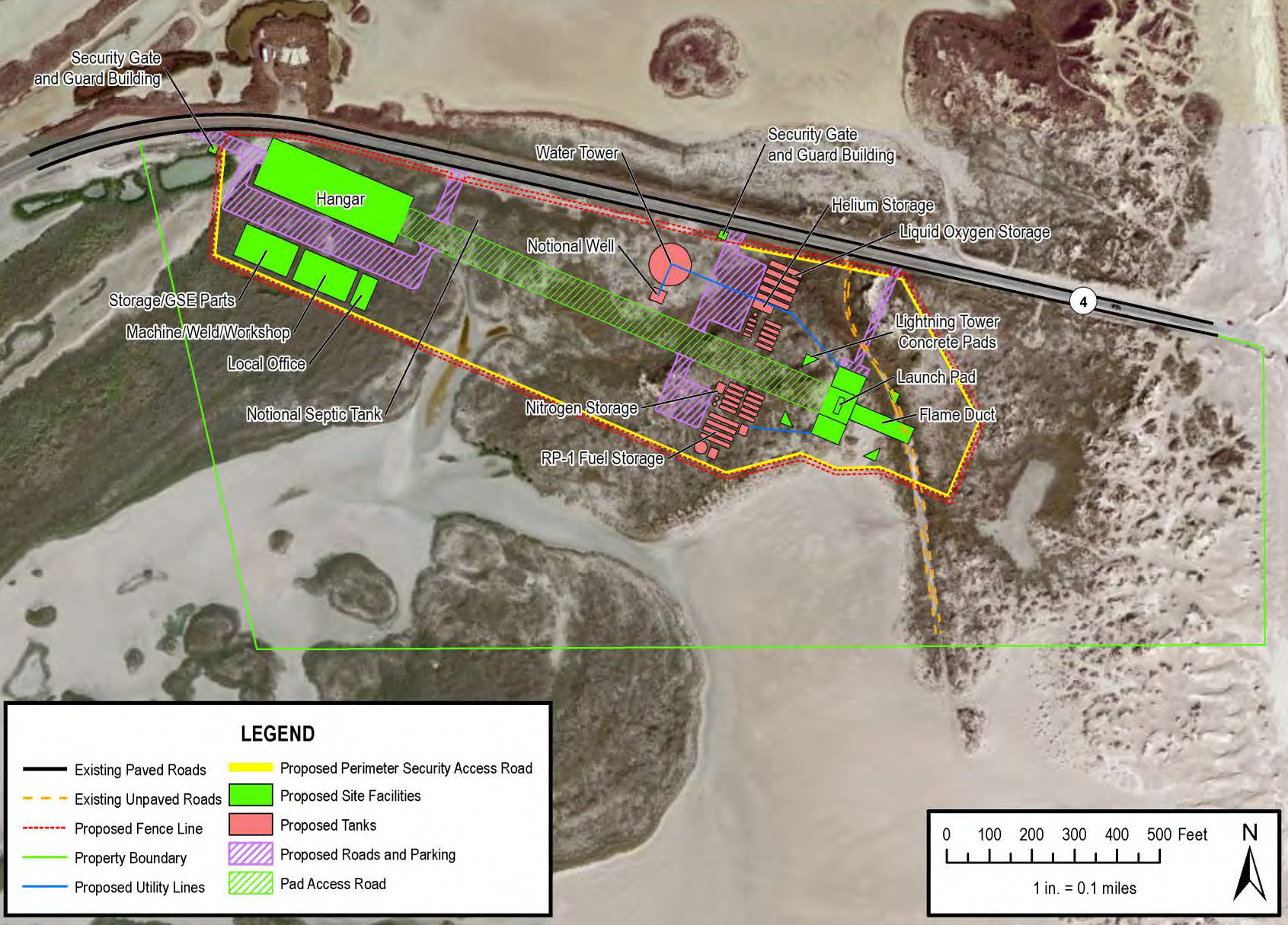 "Vertical Launch Area Layout" of the Proposed SpaceX Texas Orbital Launch Site, from the FAA draft EIS, April 2013